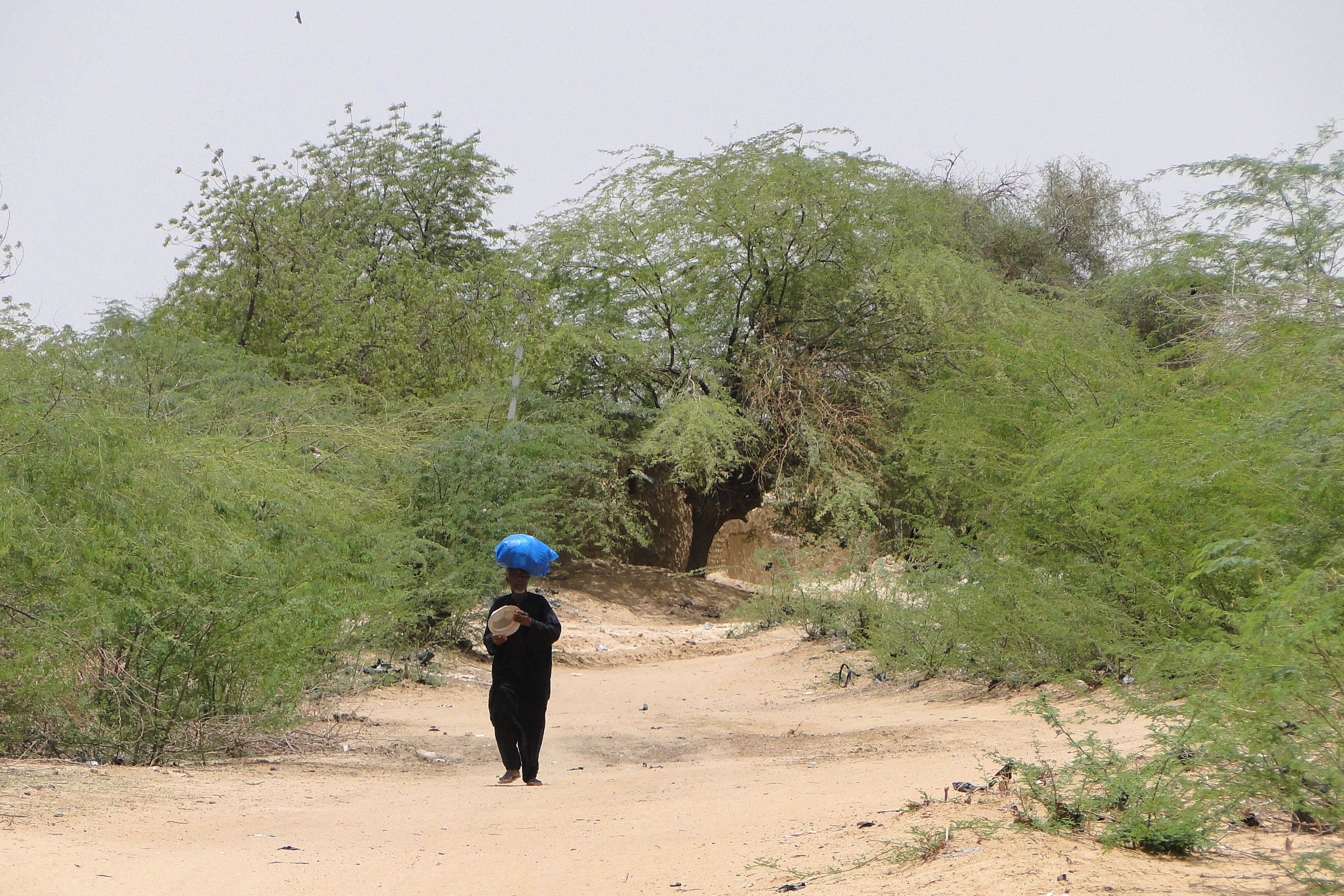 Sahel Scene - Dori - Sahel Region - Burkina Faso